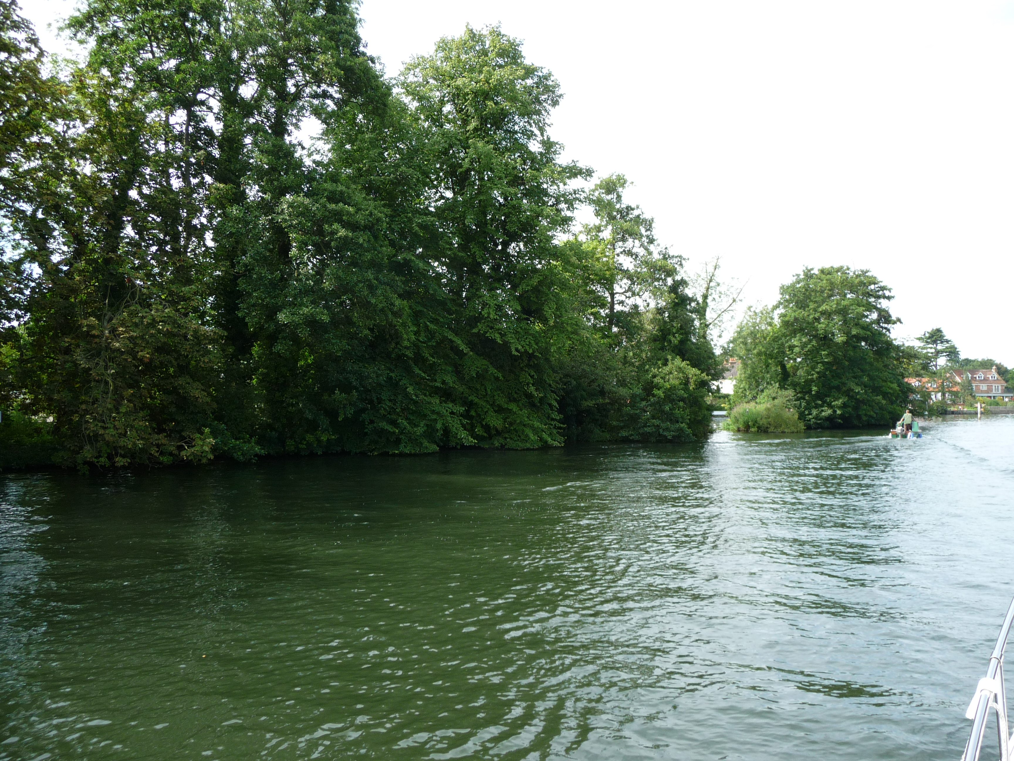 Headpile Eyot on the River Thames above Bray Lock. The smaller island beyond is connected to Headpile Eyot when the water level is low.